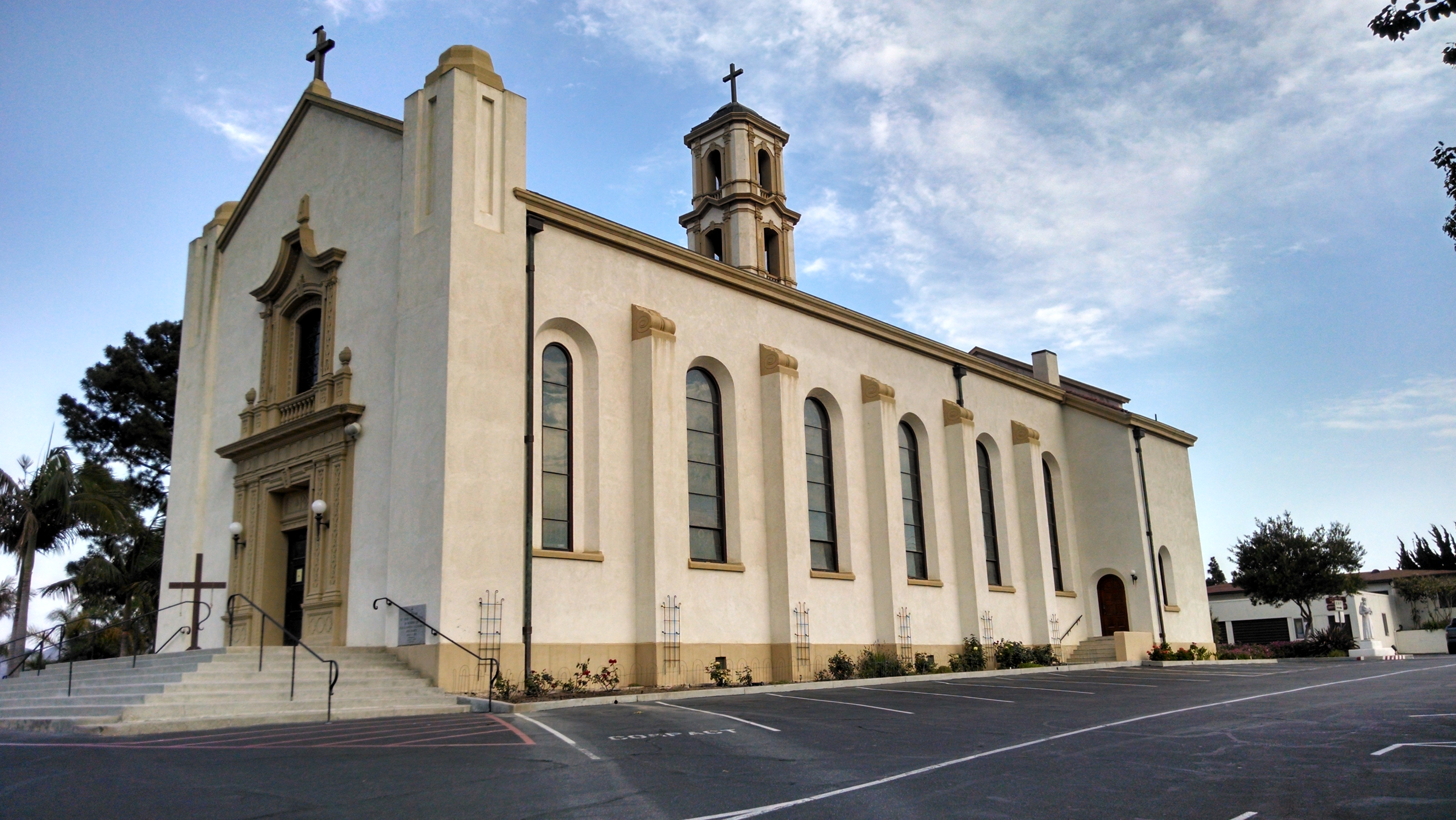 Mary Magdalene Chapel, Camarillo, California, looking SE, dedicated July 1, 1913. Albert C. Martin, Sr., architect.